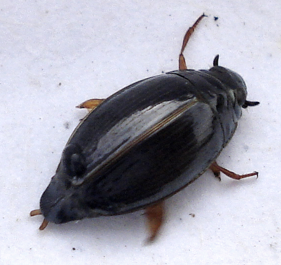 Coleoptera - Gyrinus natator